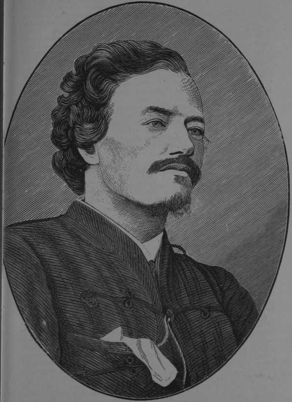 Gustav F. von Tempsky (1828-1868), prussian officer, british major and adventurer